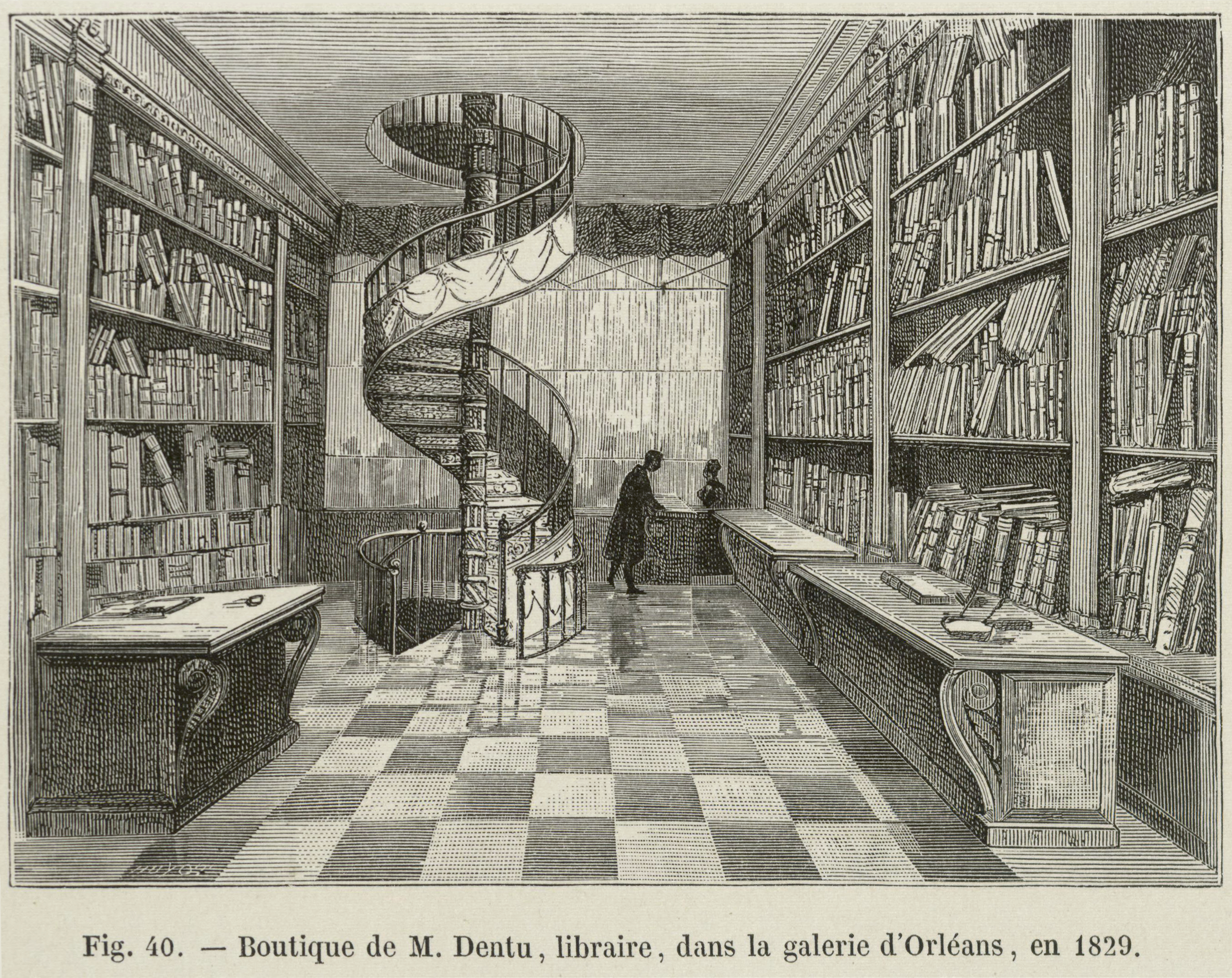 Originally located in Galeries de Bois of the Palais Royal, the bookstore run by M. Dentu was a famous site for literary meetings and discussions in the late eighteenth century. The bookstore was later inherited by family members of future generations, and was one of the oldest boutiques of the Galeries d'Orléans as of the mid-nineteenth century.